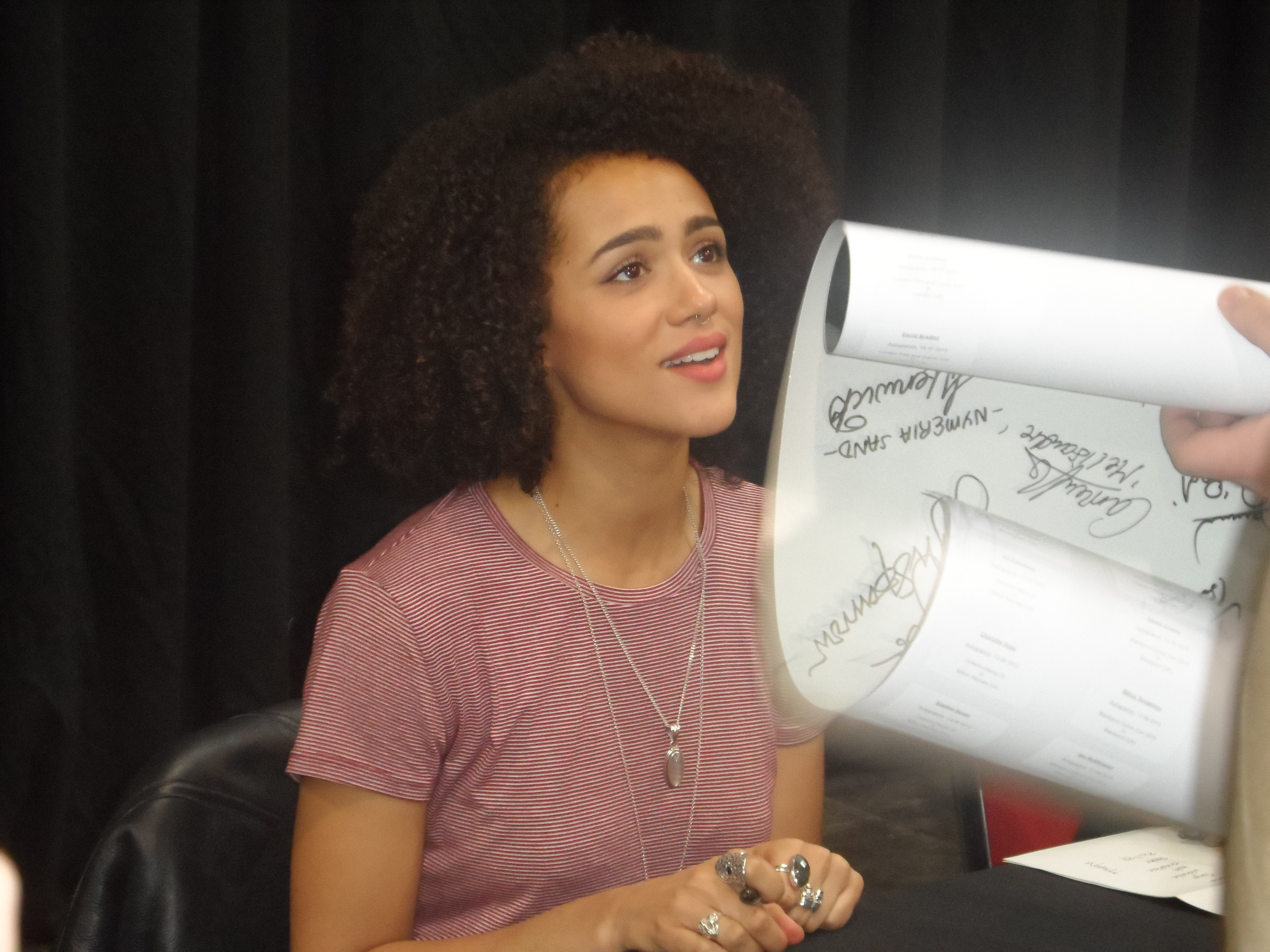 Nathalie Emmanuel at the First German Comic Con in Dortmund, Germany.